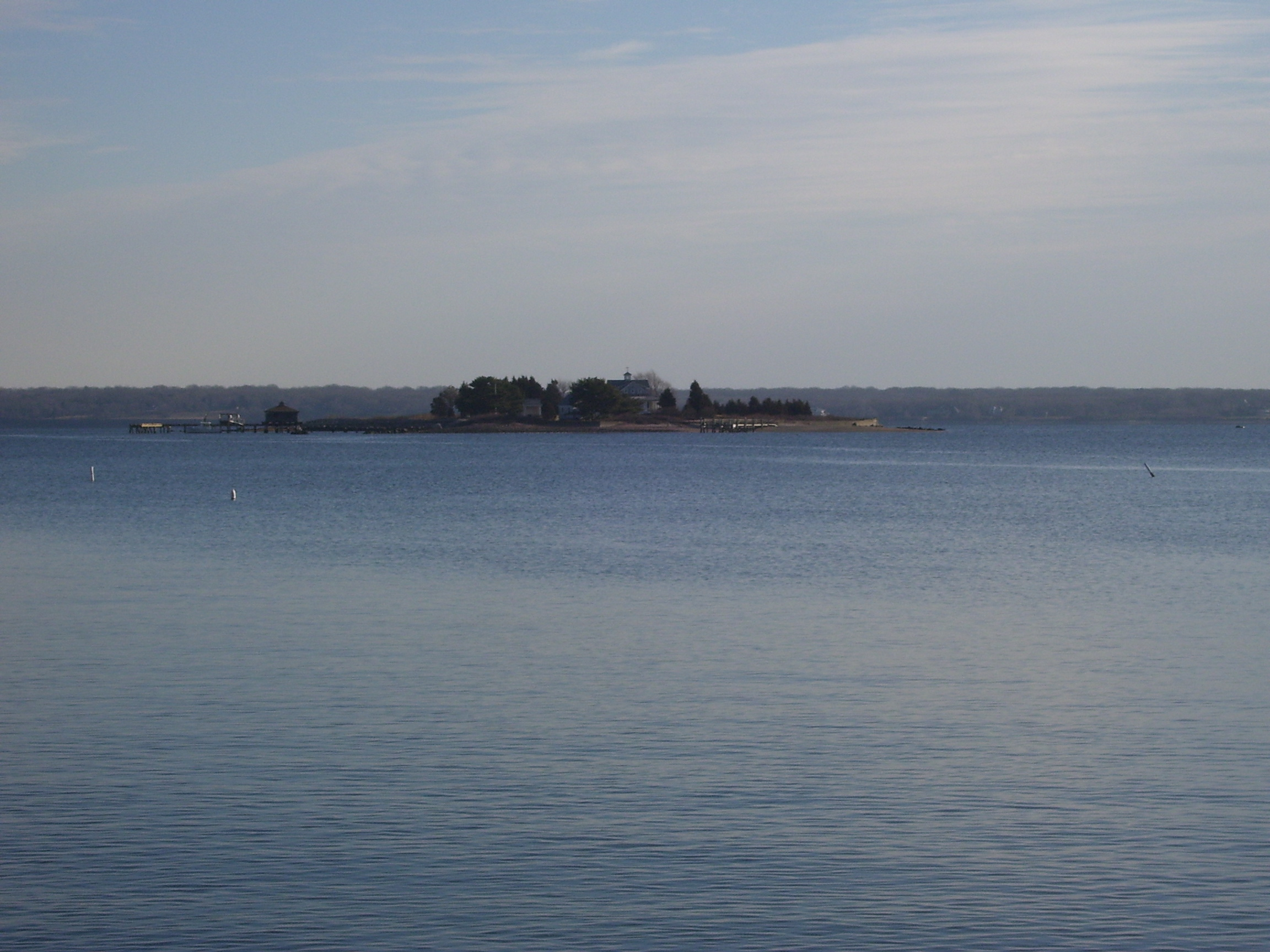 My 2008 photo of Fox Island from North Kingstown, Rhode Island